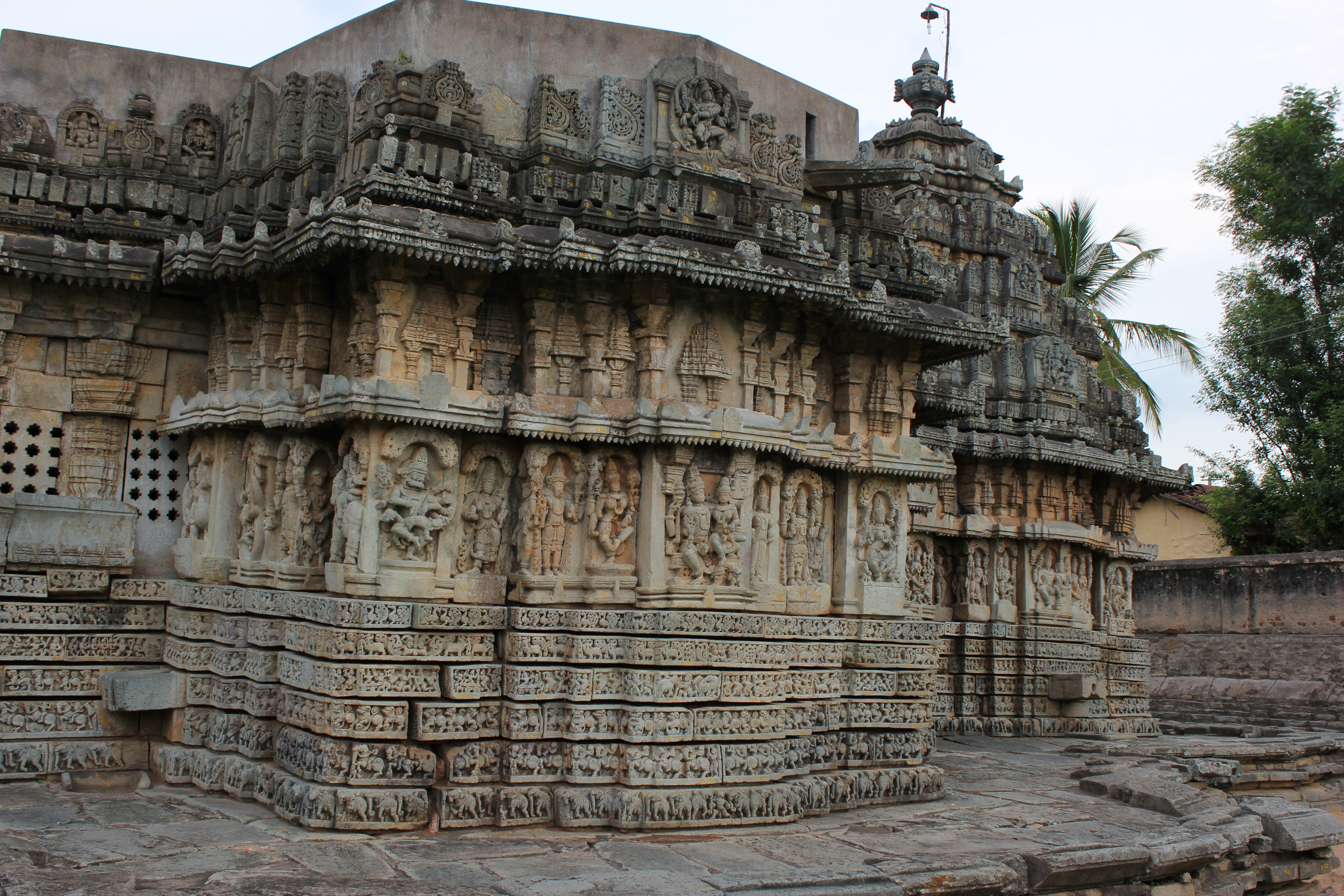 The Mallikarjuna temple is located in Basaralu, Mandya district, Karnataka state, India. The temple was built around 1234 A.D. during the rule of the Hoysala Empire King Vira Narasimha II.